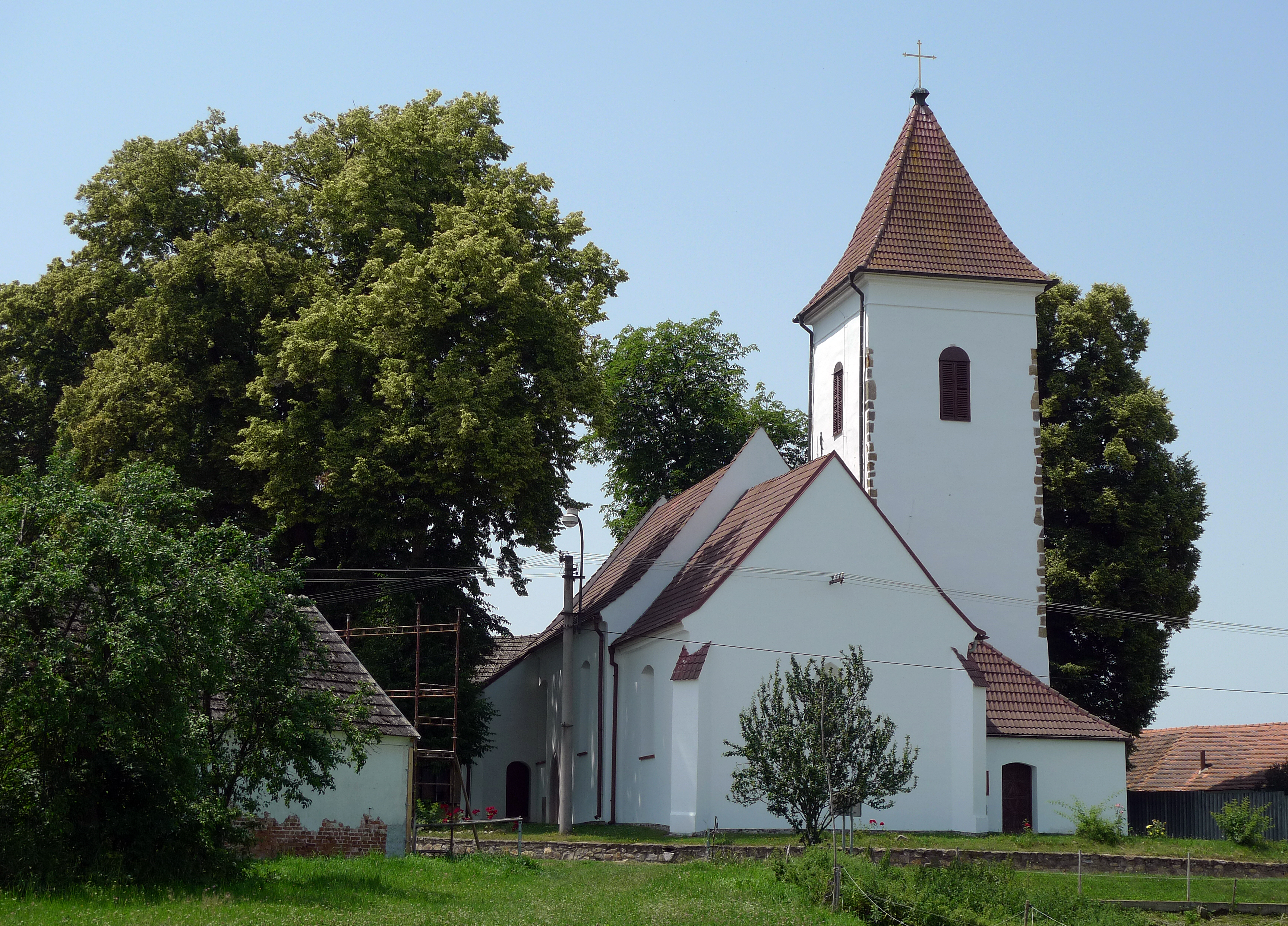 Village of Horní Bukovsko, Czech Republic, church